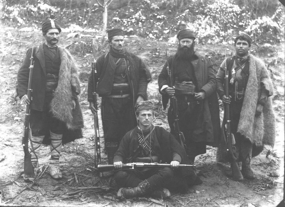 Cheta of bulgarian revolutionary Atanas Nivichki from IMARO